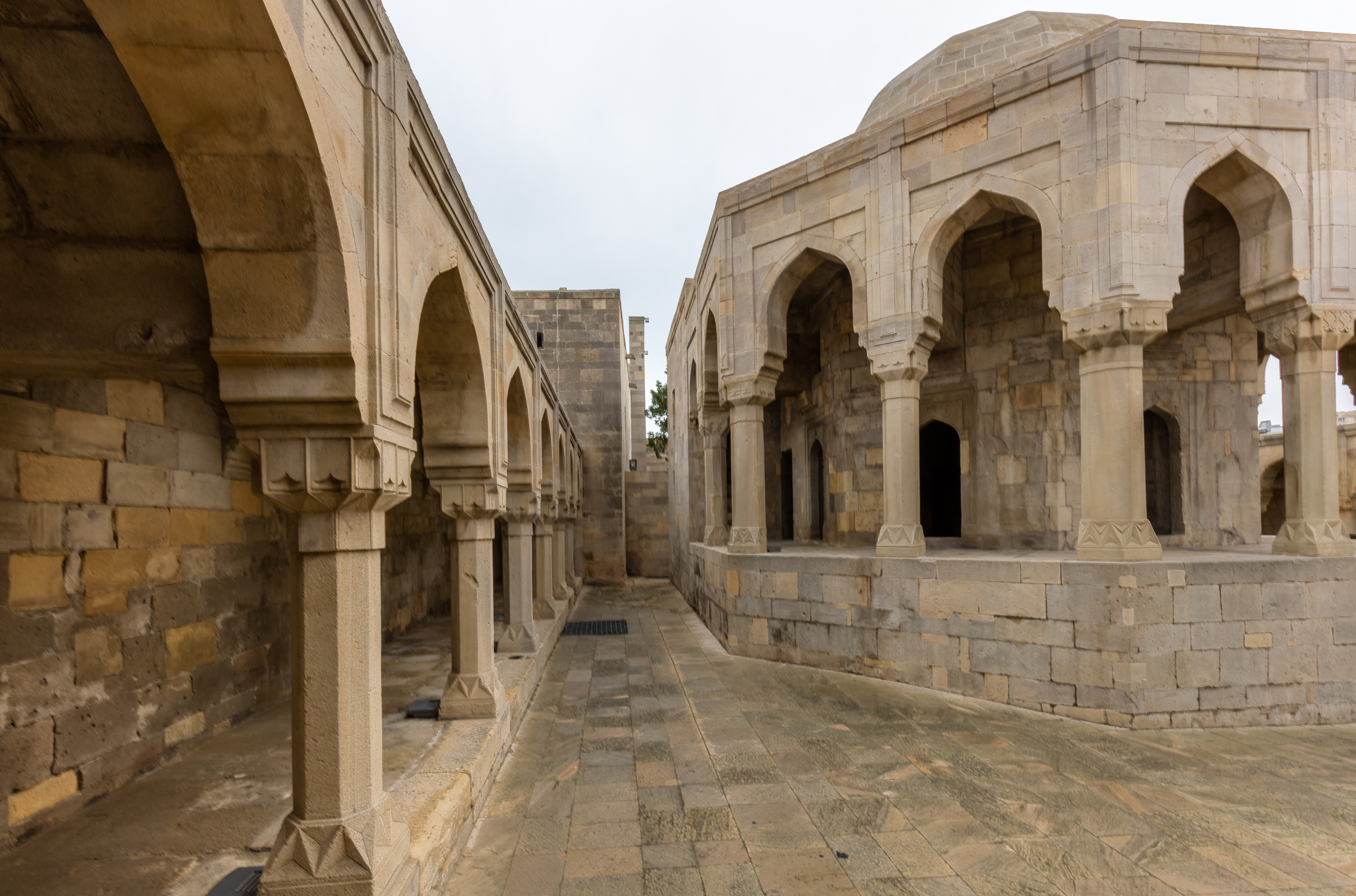 Palace of the Shirvanshahs, Baku, Azerbaijan